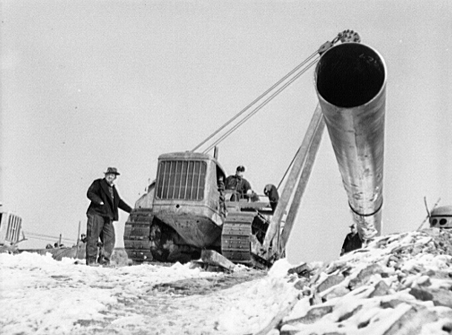 Hoisting Big Inch pipe. No known restrictions. For information, see U.S. Farm Security Administration/Office of War Information Black & White Photographs(